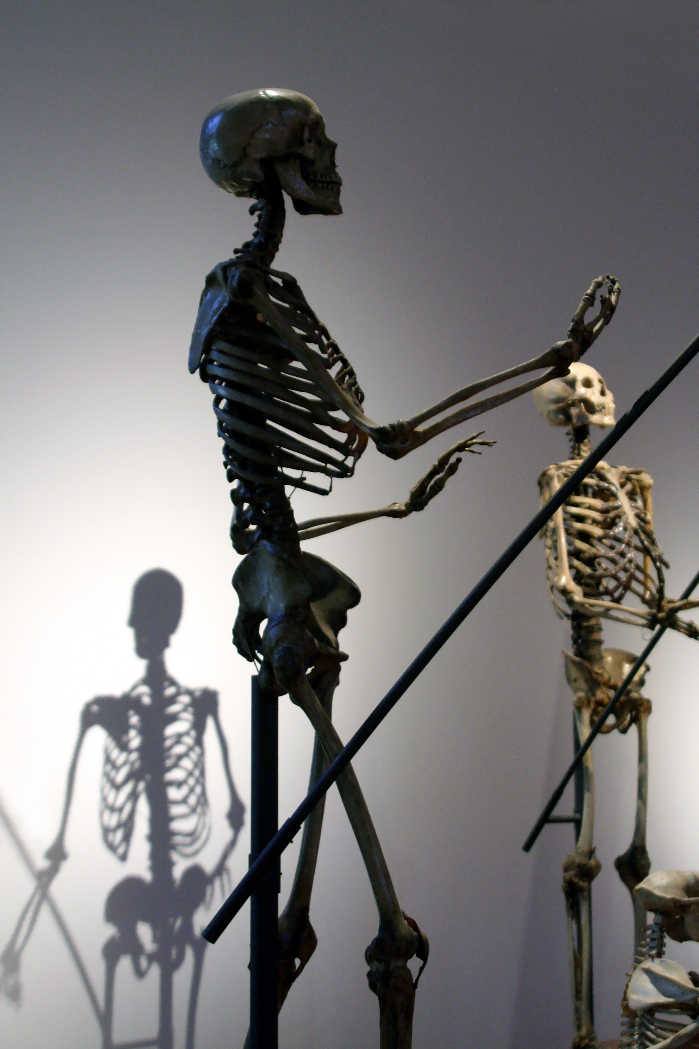 Museum Boerhaave, Leiden - Skeletons - near Anatomical Theatre